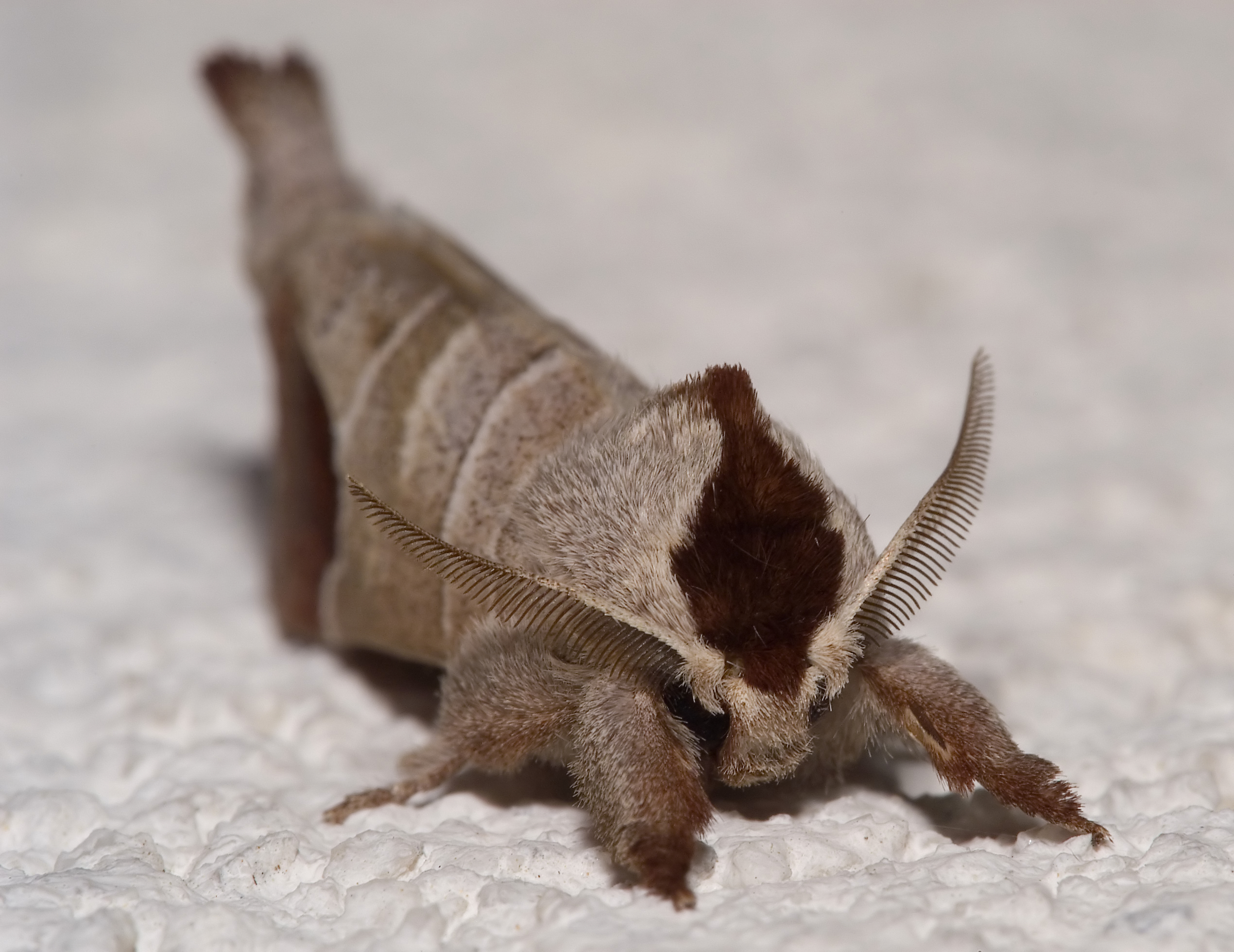 Please report references to kulacgmx.at.